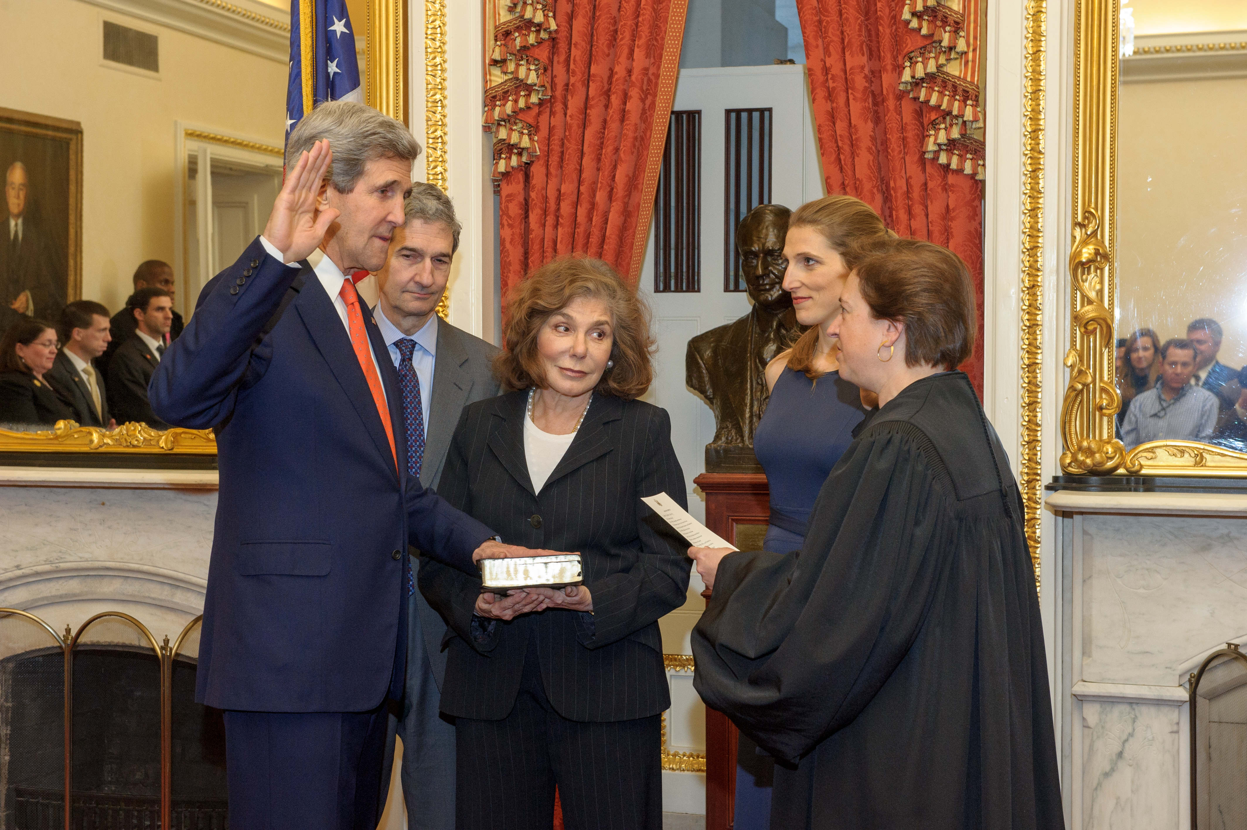 Supreme Court Justice Elena Kagan swears in Secretary of State John Kerry on February 1, 2013 in the Foreign Relations Committee Room in the Capitol. They were joined by his wife Teresa, daughter Vanessa, brother Cameron, and his Senate staff.